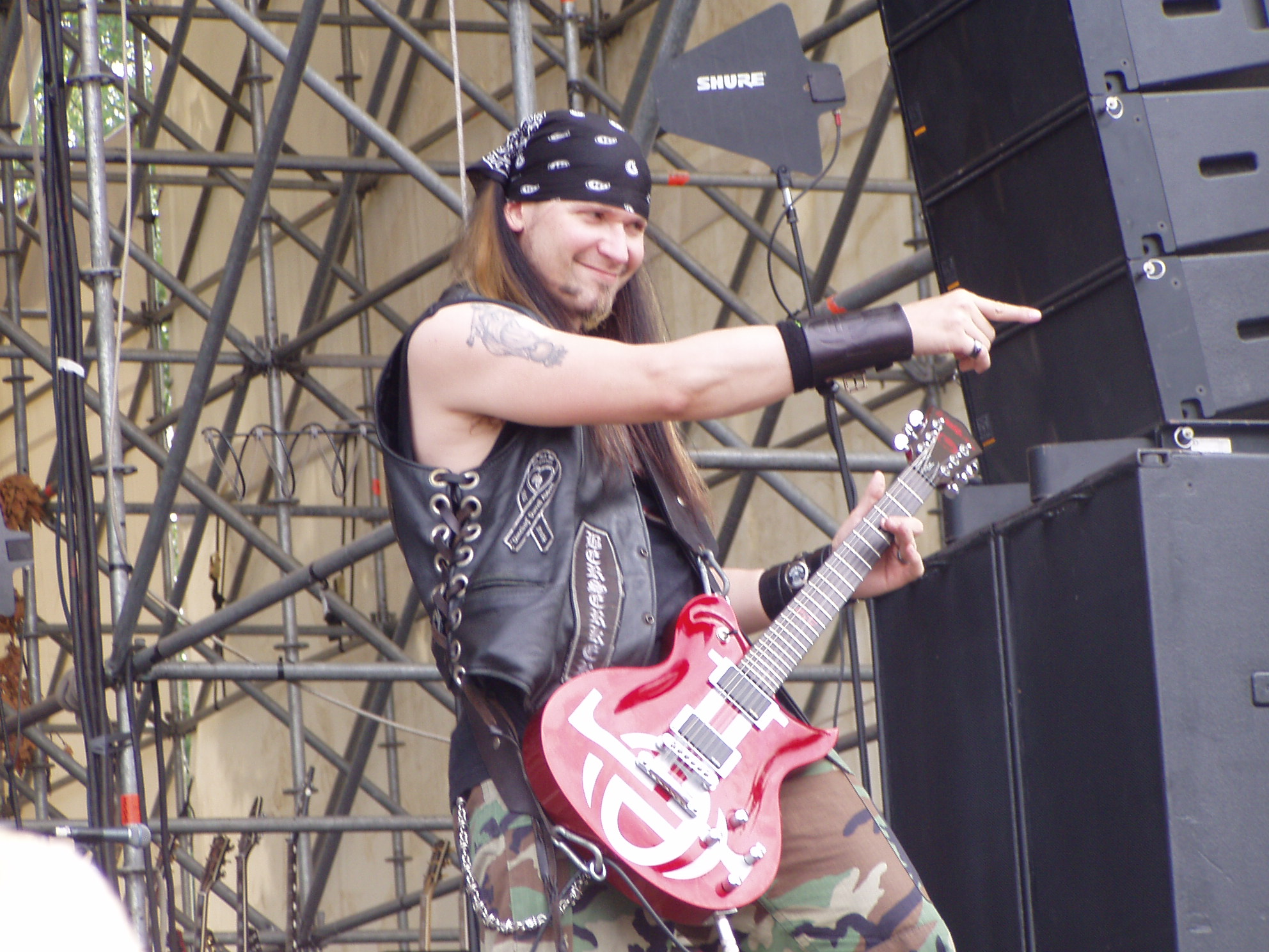 I Black Label Society al Gods of Metal